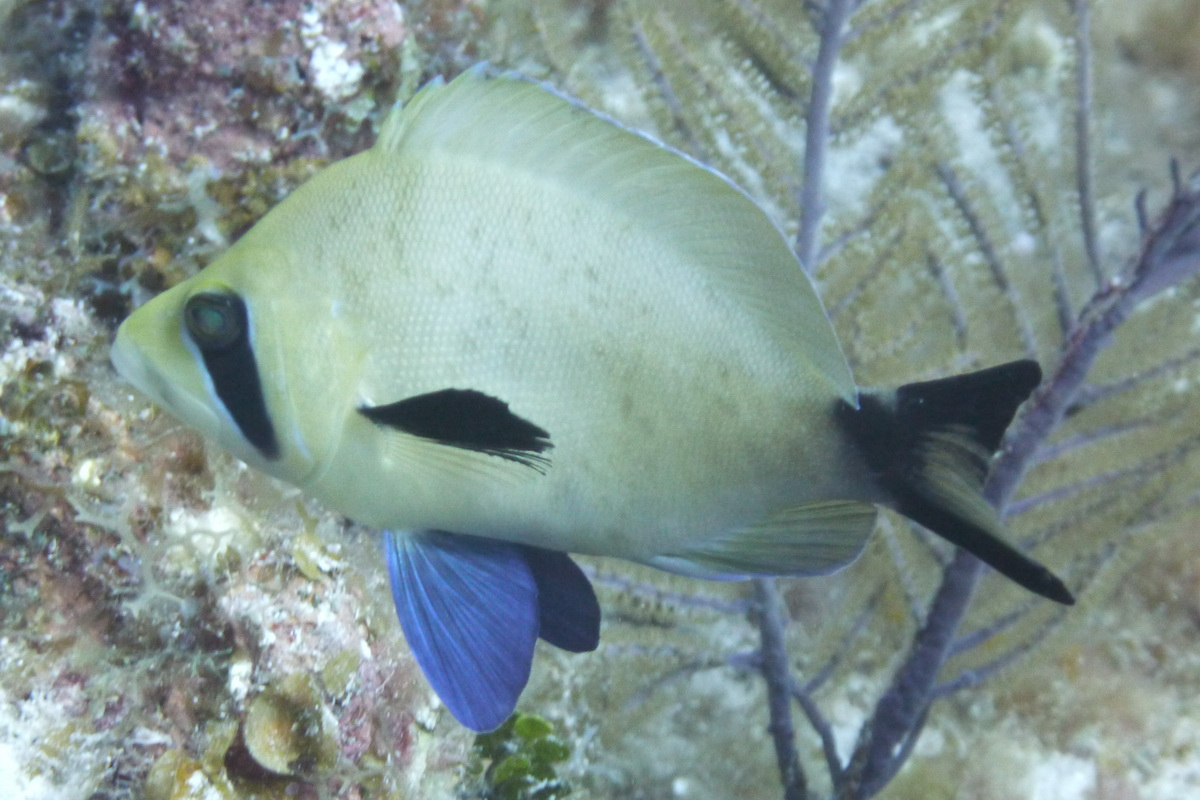 Masked hamlet (Hypoplectrus providencianus) on Grand Cayman, photographed on 2016-11-26.